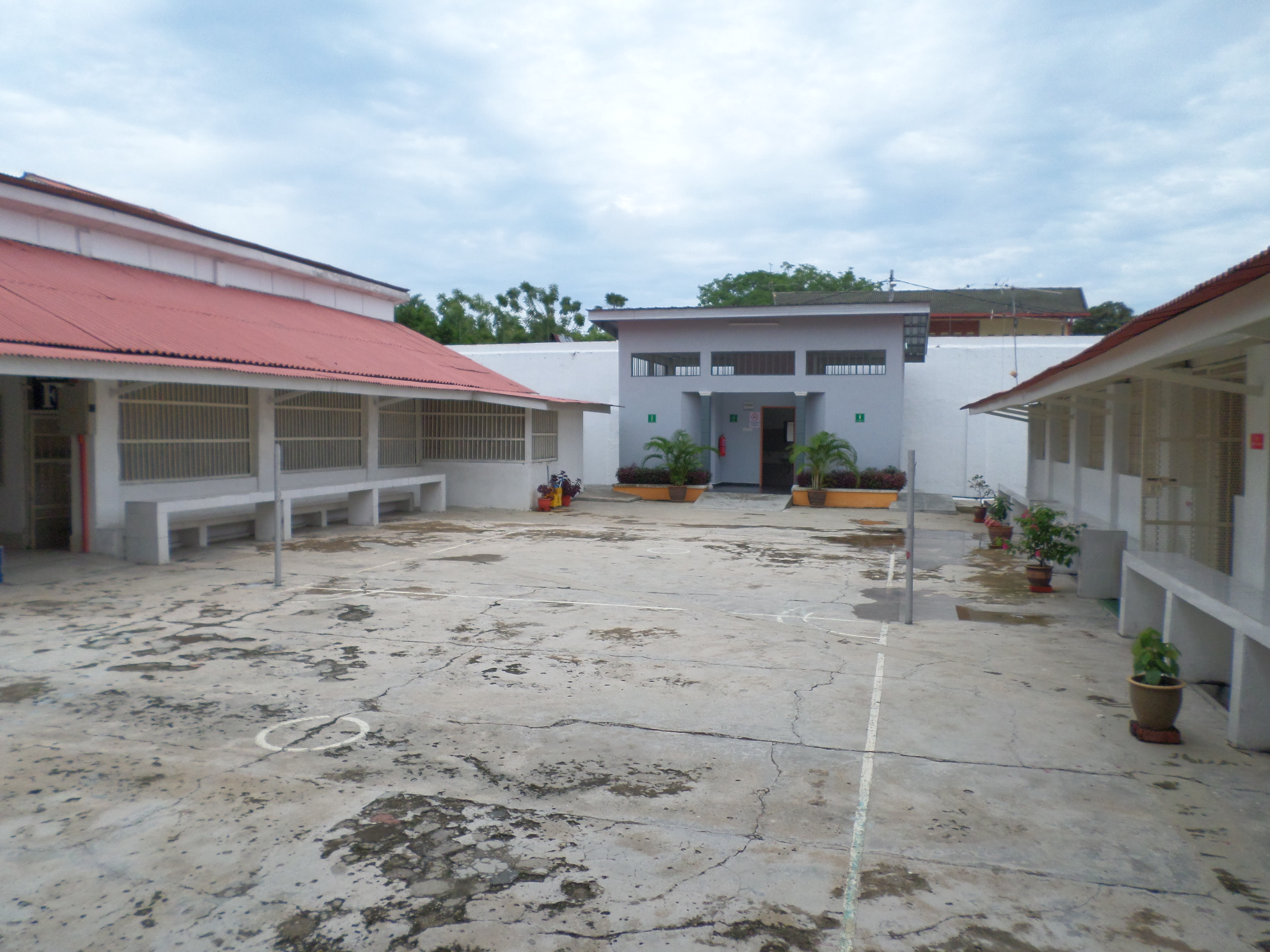 Malaysia Prison Museum, Malacca Town, Malacca, MalaysiaBahasa Melayu: Muzium Penjara Malaysia, Bandaraya Melaka, Melaka, Malaysia